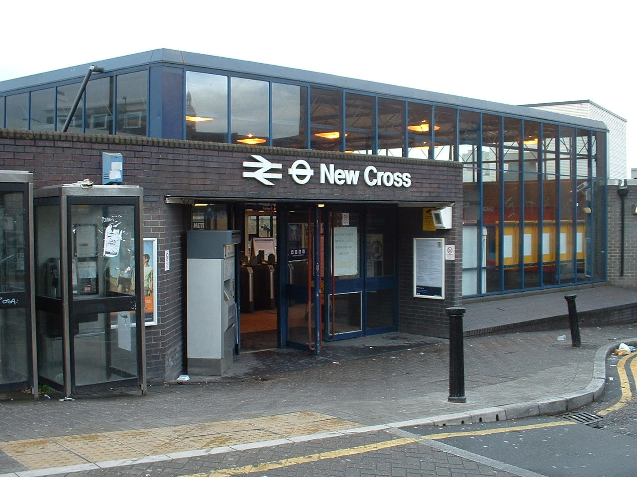 New Cross railway station entrance